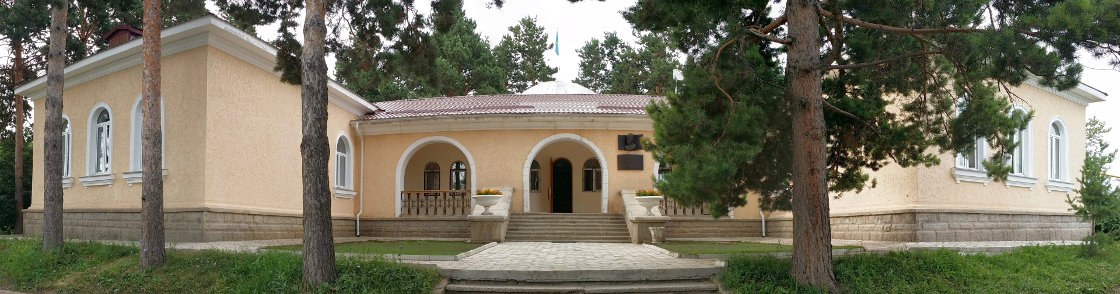 Main building of Fesenkov Astrophysical Institute